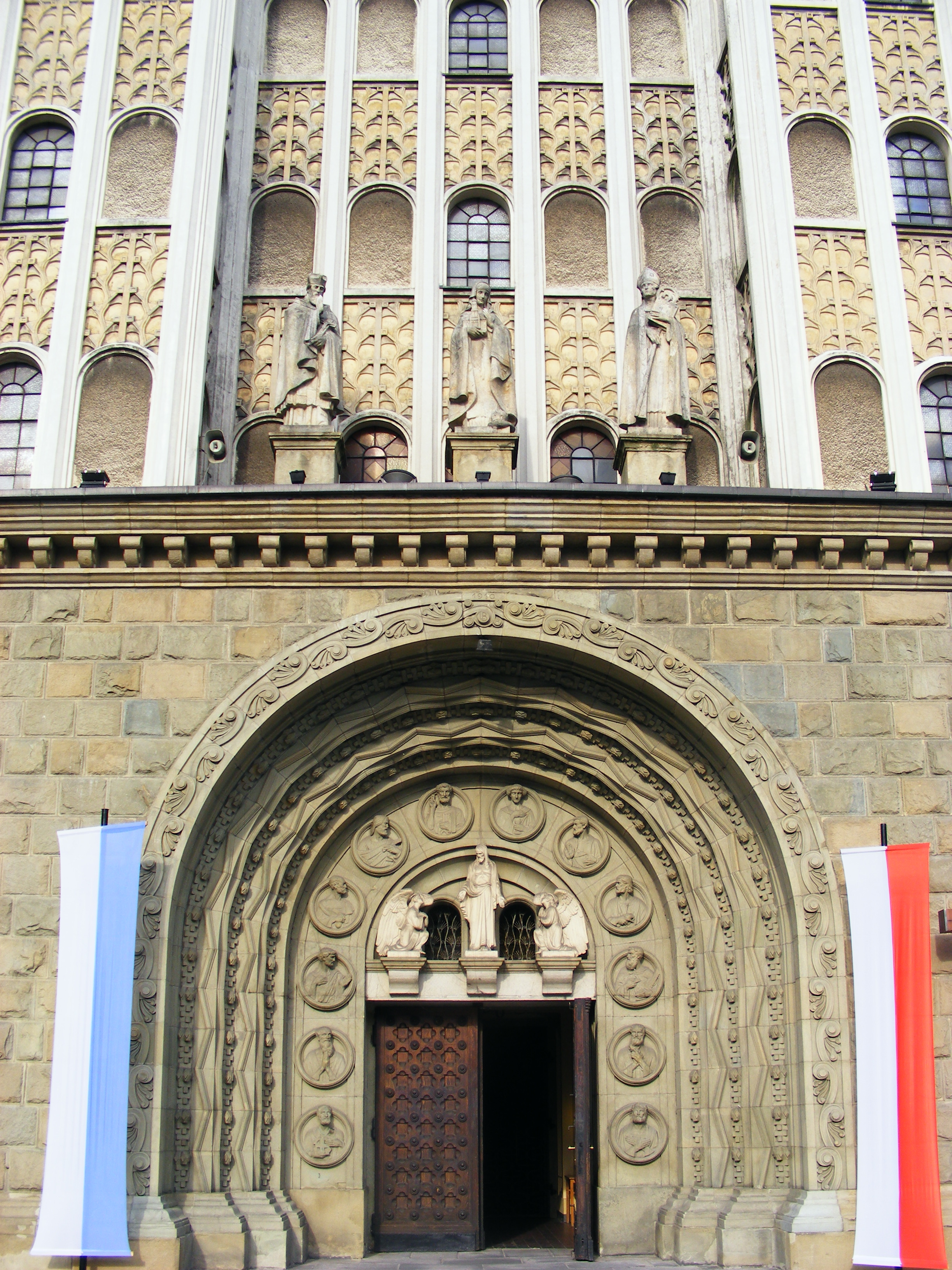 Bielsko-Biała, Cathedral of St. Nicholas - portal.